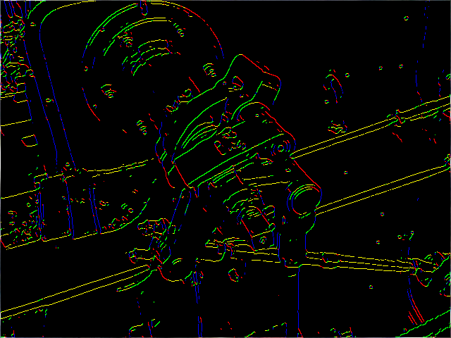 The original image was taken by me in Manchester in the Museum of Science and Industry in Manchester. This was obtained using a Java edge detection program I wrote. If you want the source code leave me a message.